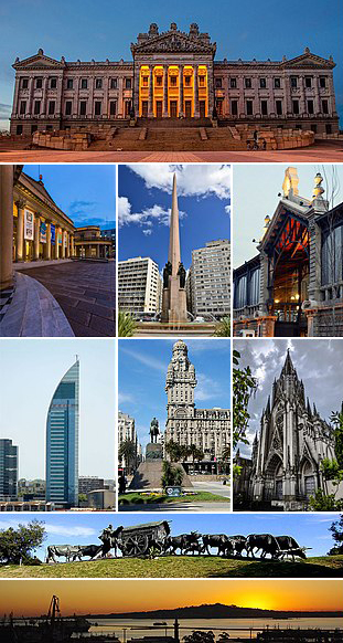 Collage of the main landmarks of the city of Montevideo